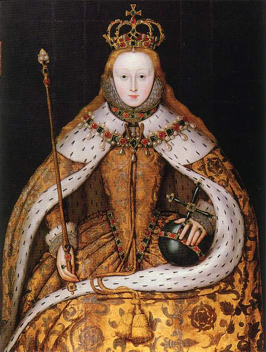 Coronation portrait of Elizabeth I of England